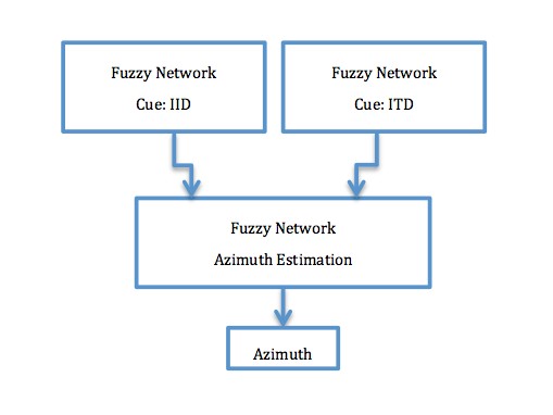 Introduction of azimuth estimation method